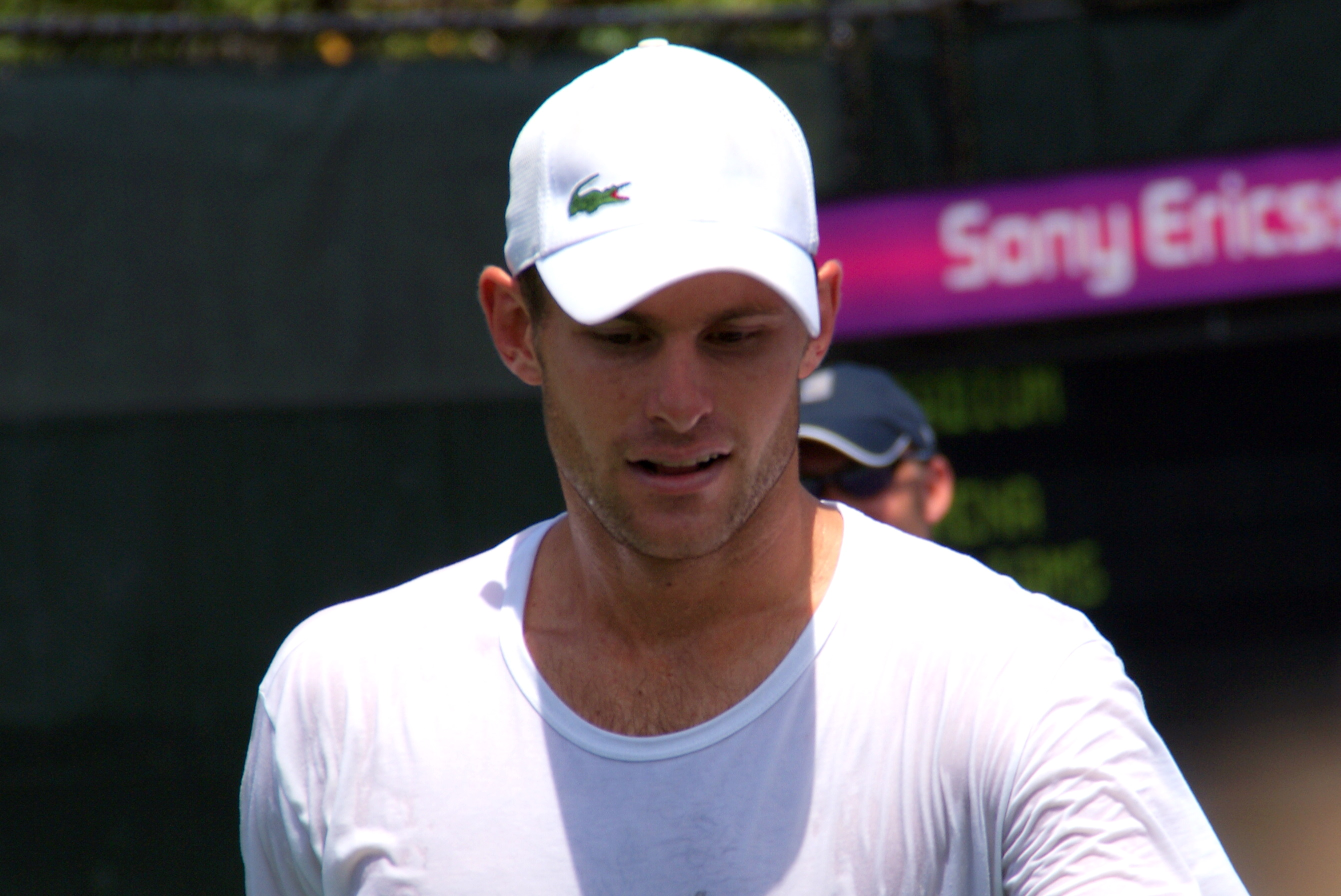 Roddick practicing at Miami, 2009